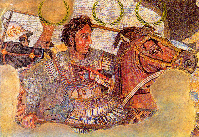 Triple laurel crown, Alexander the Great edition, for recognition of superlative mainspace contributions.